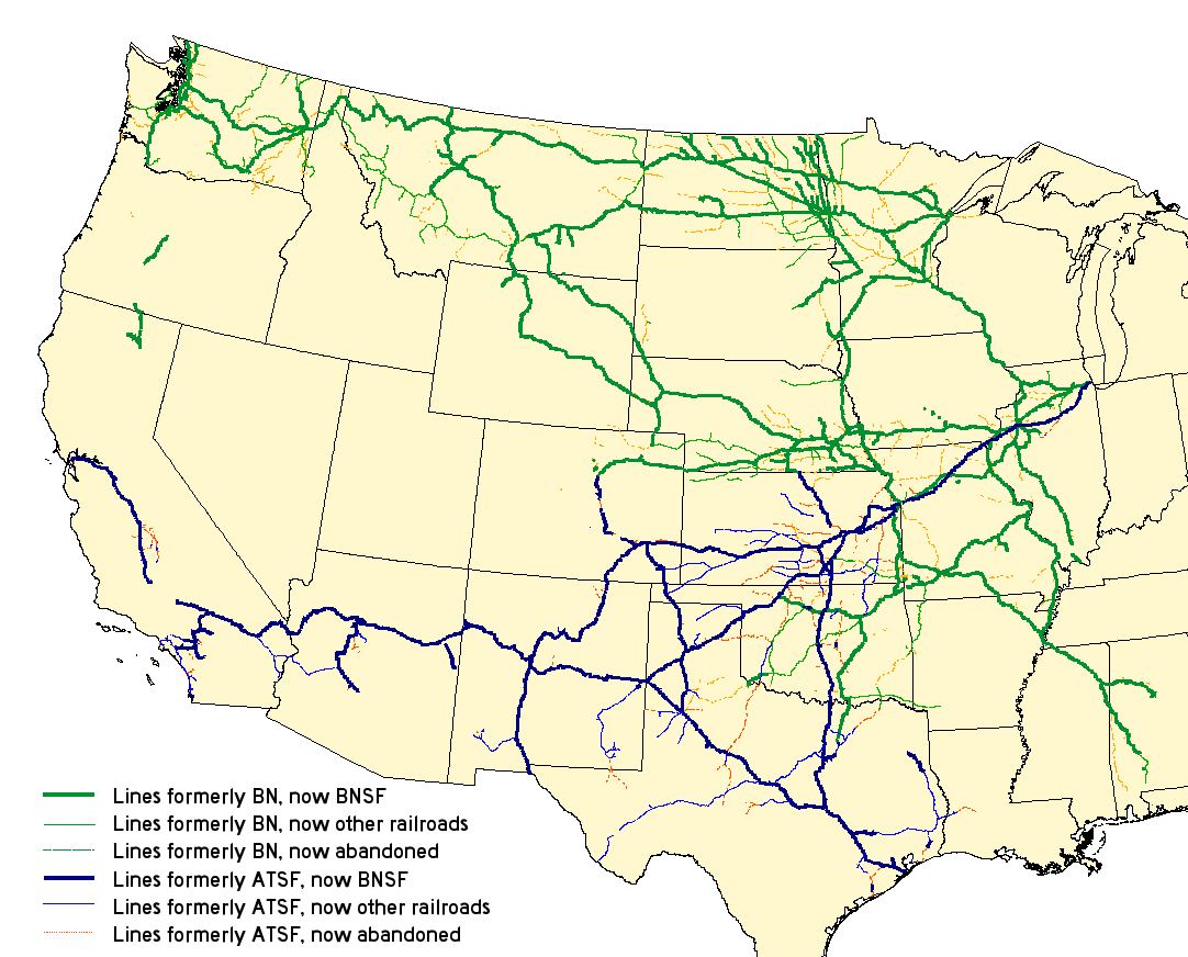 Map of the merger of the Burlington Northern Railroad and the Atchison, Topeka and Santa Fe Railway to form the BNSF Railway. See the map legend for details. Created with Quantum GIS with data from the National Transportation Atlas Database.